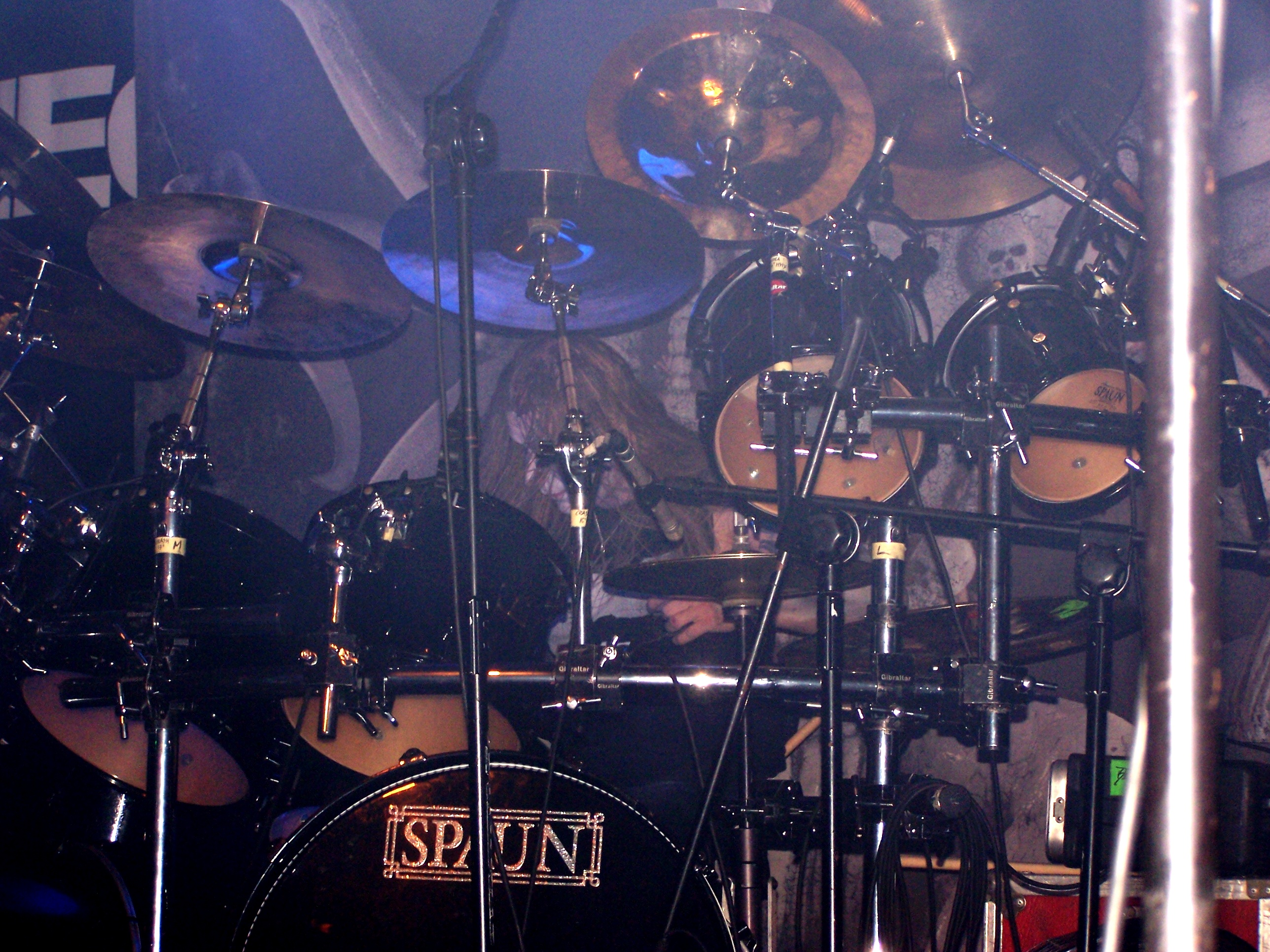 Zbigniew Promiński from Behemoth during Polish Apostasy Tour 2007 in Mega Club in Katowice.